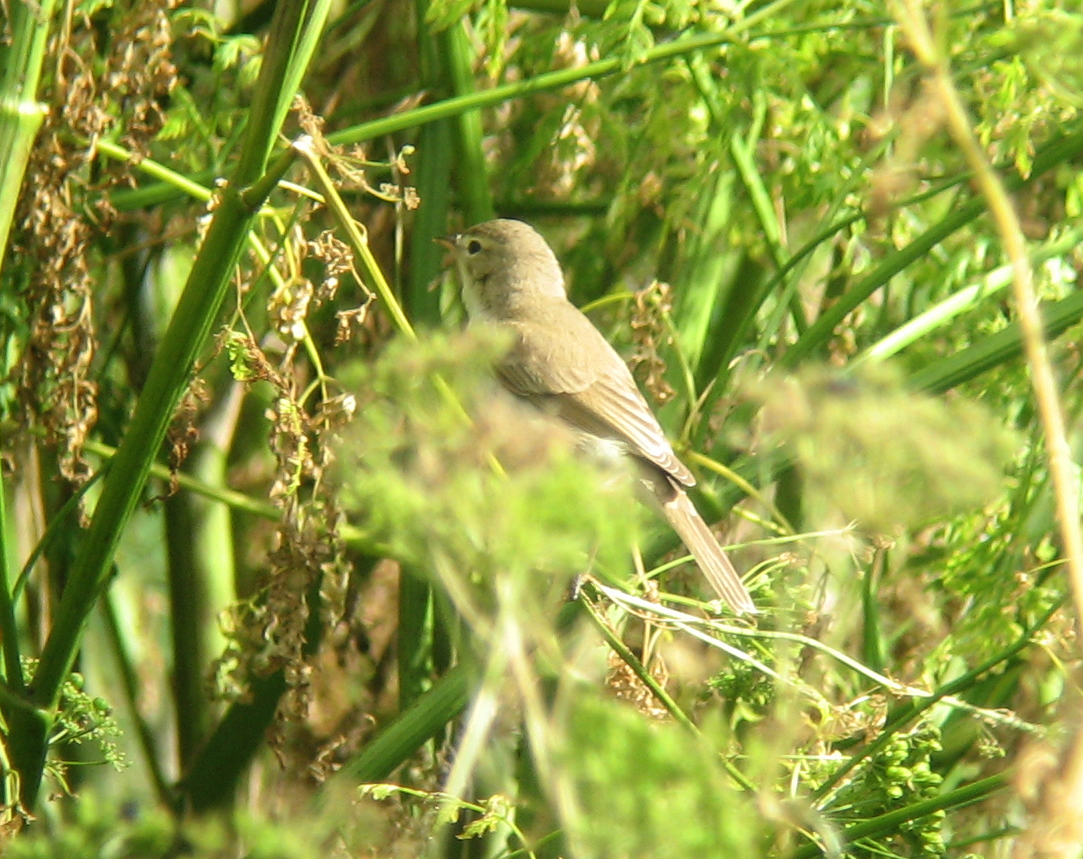 Booted Warbler Iduna caligata (syn. Hippolais caligata), Inner Farne Island, Northumberland, UK